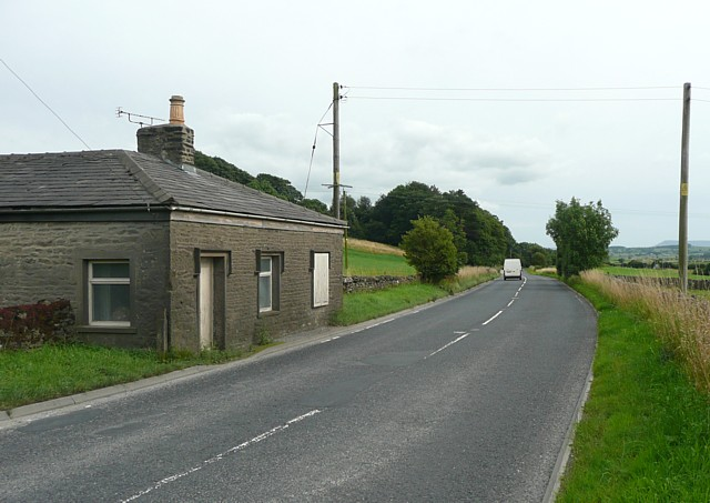 The B6480 and Turnpike House, Settle This turnpike road is shown on Jeffrys's map of 1775, but the ancient route was up over the hill (Hunter bark) to the east.